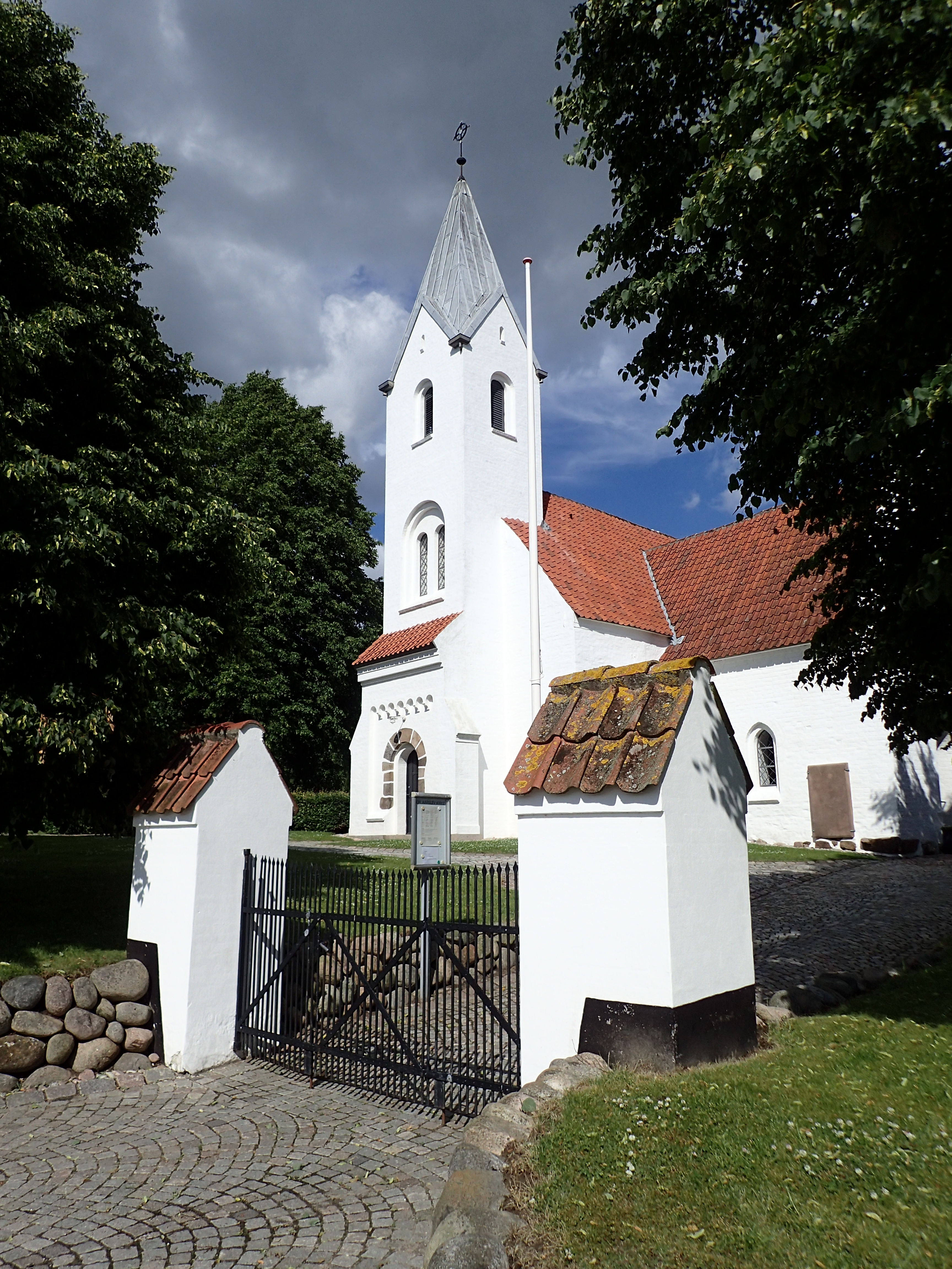 Sdr. Aarslev Kirke